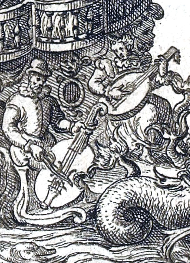 Detail showing Girard de Beaulieu and his wife Violante Doria in the engraving 'Figure de la Fontaine', from Balet comique de la Royne, performed in 1581 in the Grande Salle du Petit-Bourbon